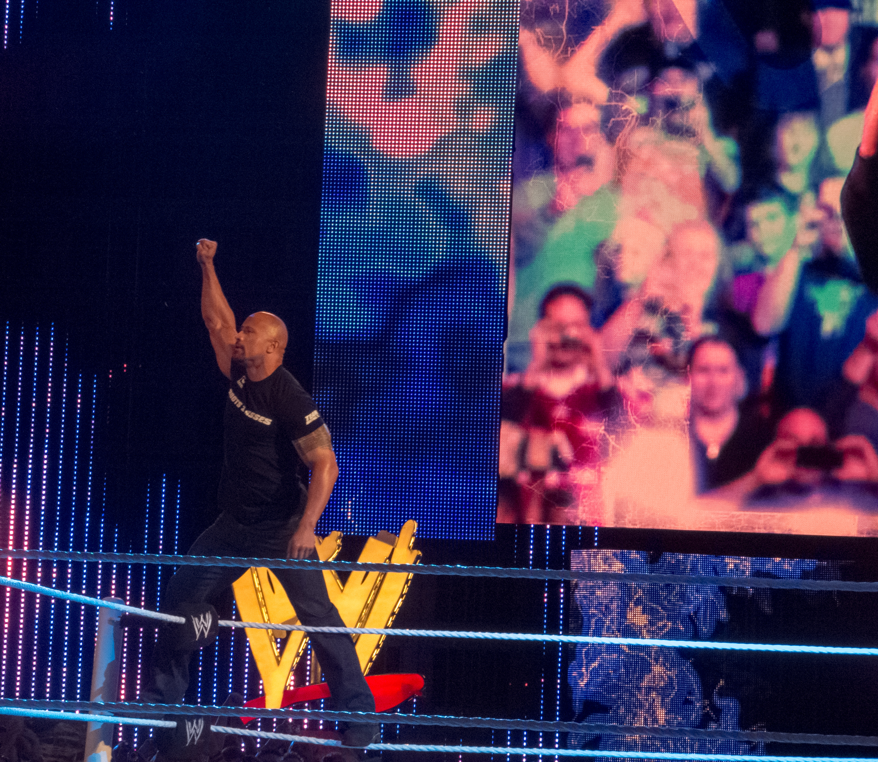 The Rock promo